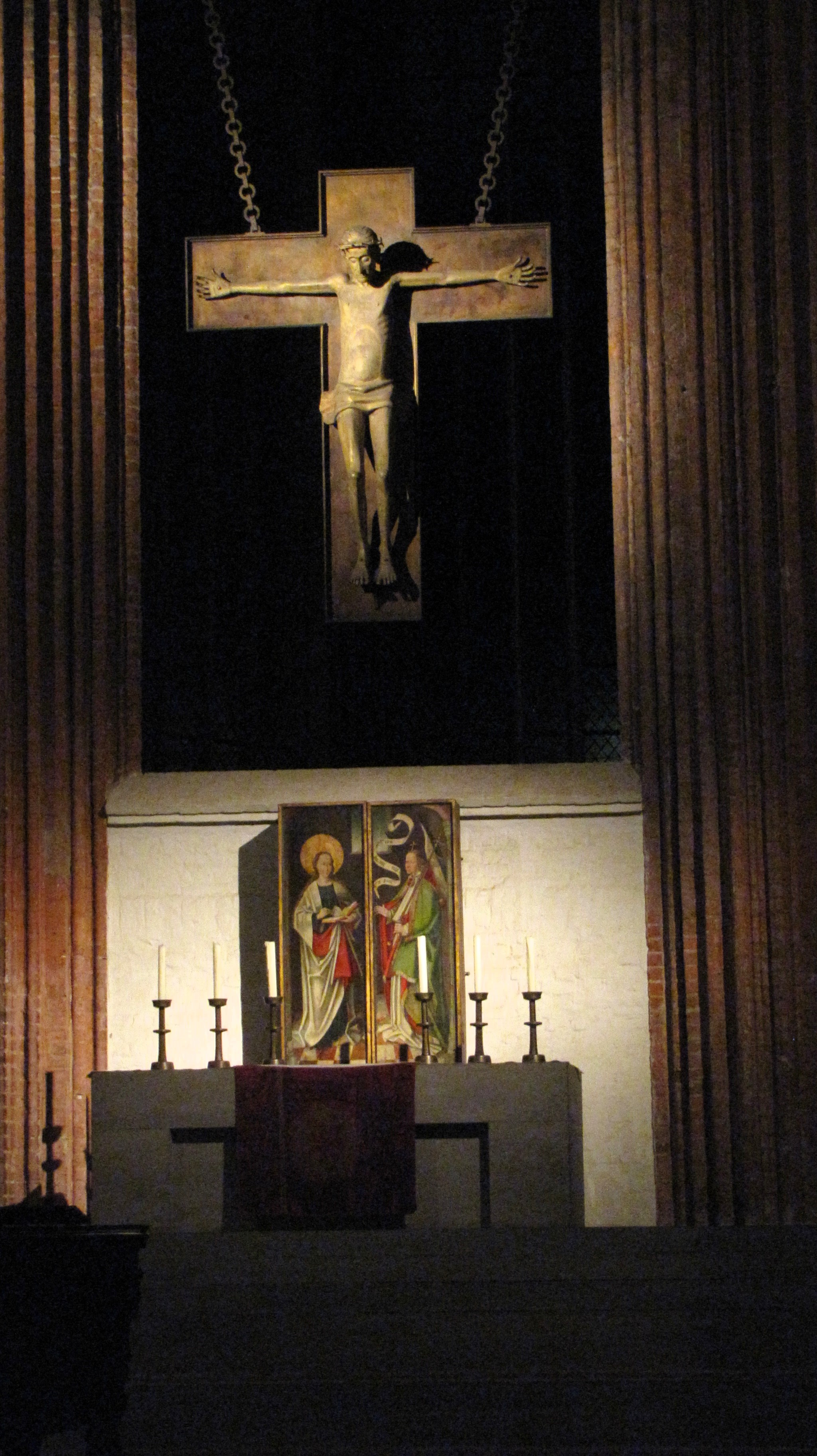 High Altar of the Marienkirche Lübeck with gothic triptych (closed in Advent, showing the annunciation) and monumental crucifix by Gerhard Marcks